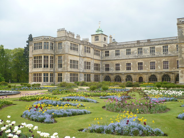 The rear of Audley End House looking across the parterre gardens